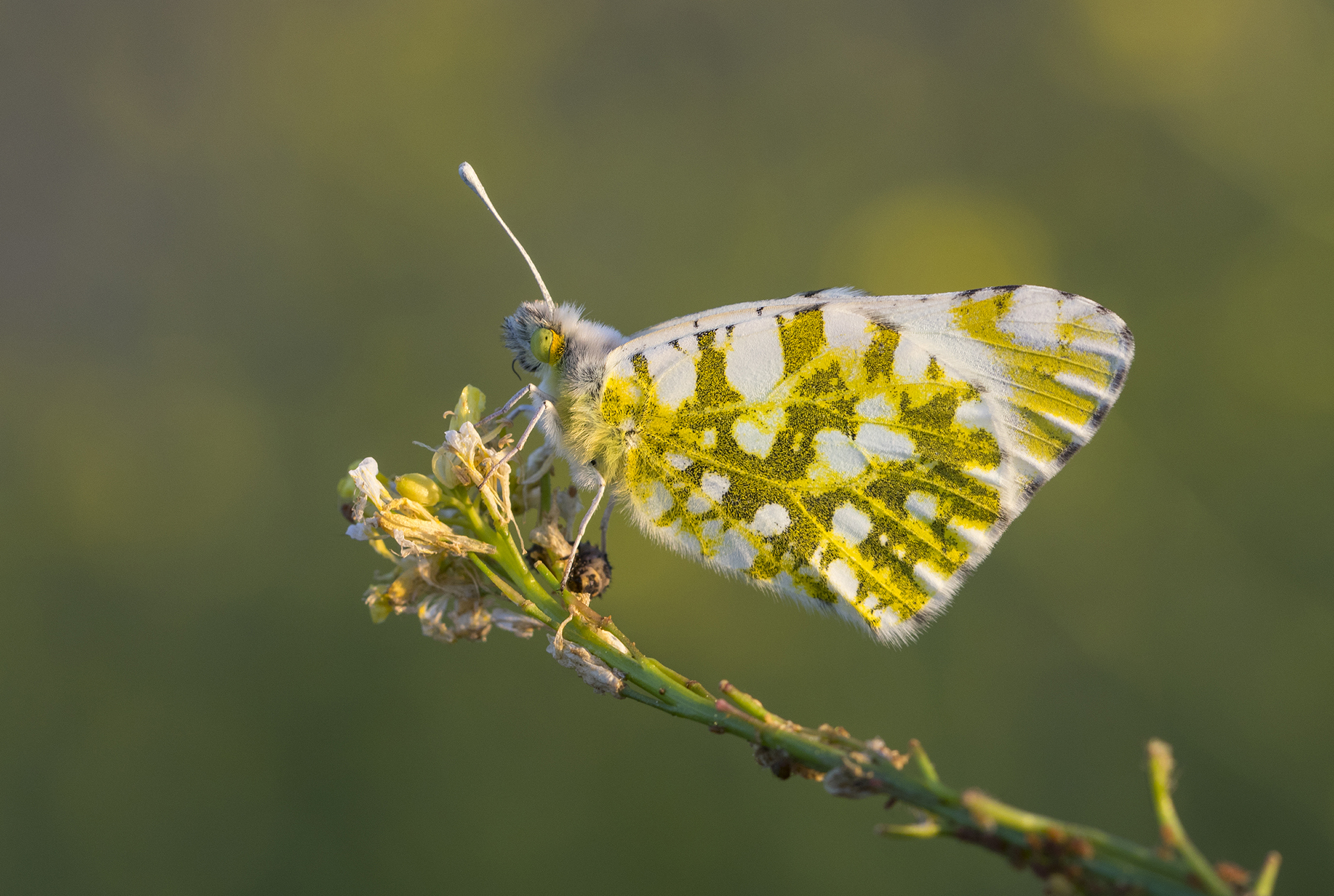 Wing underside view of an Eastern Dappled White (Euchloe ausonia). Balcalı, Adana - Turkey.